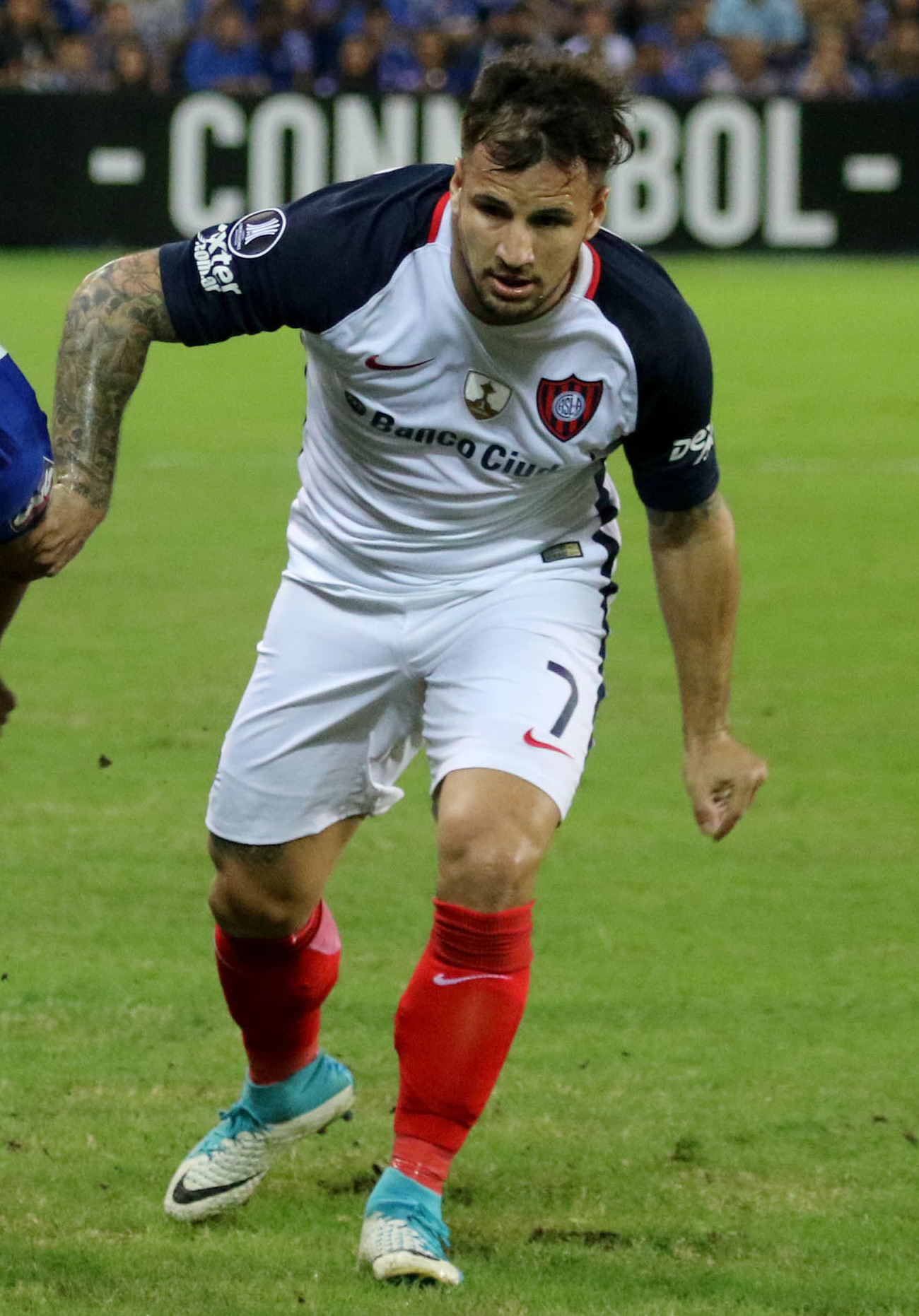 Guayaquil, jueves 06 de julio del 2017 (Andes).-Emelec enfrenta a San Lorenzo por los octavos de final de la Copa Libertadores, El partido se disputa en el estadio Capwell.Foto:Andes/César Muñoz